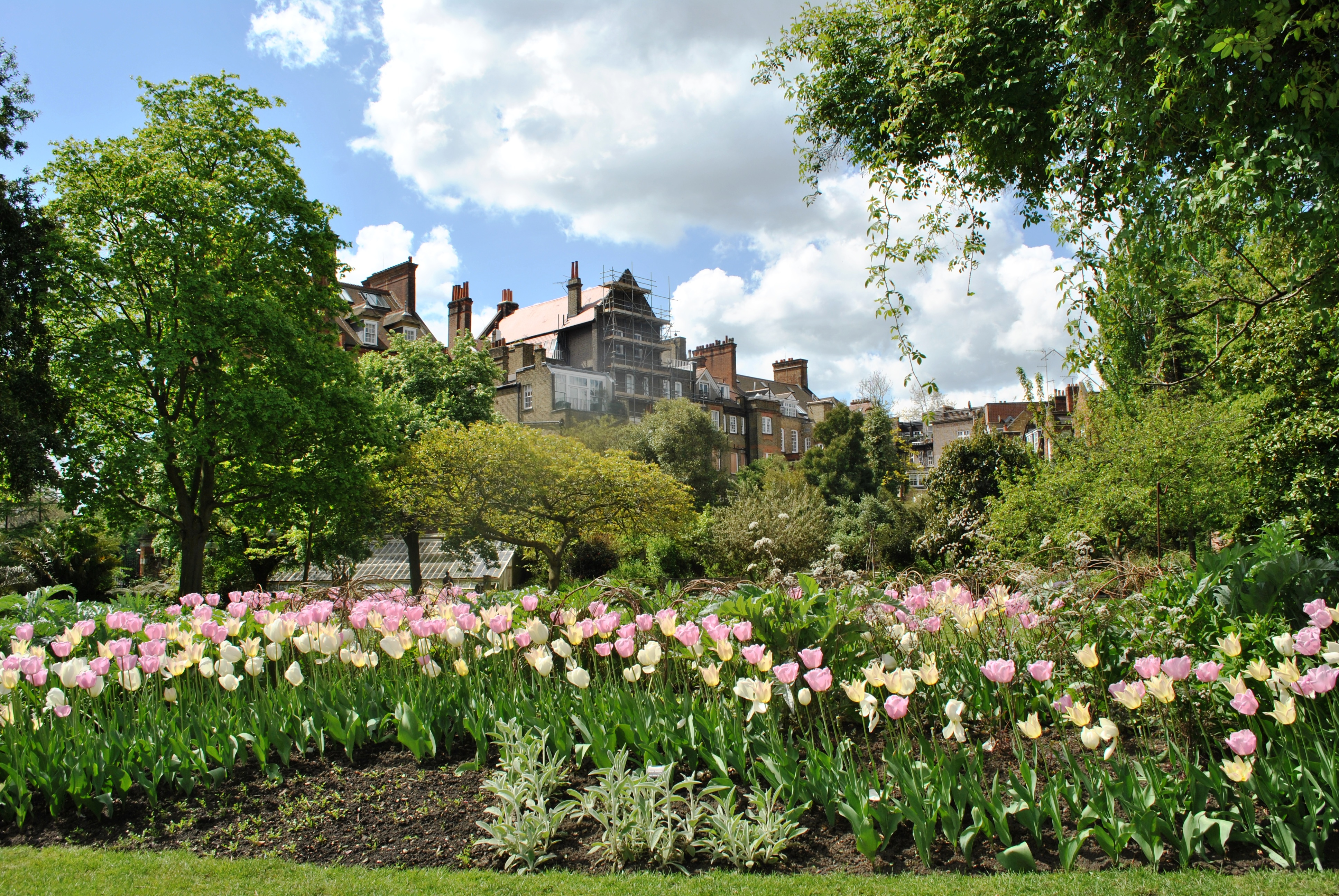 Image originally published in Queer Places: Retracing the Steps of LGBTQ people around the World Authored by Elisa Rolle